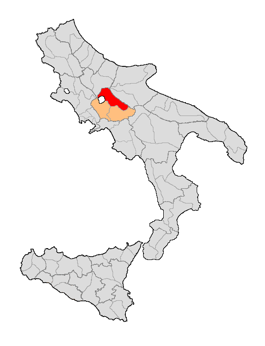 Locator map of Distretto di Ariano